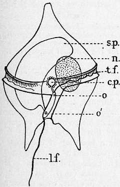 Peridinium divergens showing longitudinal and transverse grooves in which lie the respective flagella l.f., t.f.; s.p., large “sack pusule” discharging through a tube by pore o’; c.p., “collective pusule discharging at o, and surrounded by a ring of formative” or “daughter pusules”; n, nucleus. After F. Schutt in Engler and Prantl’s Pflanzenfamilien, by permission of Wm Engelmann.